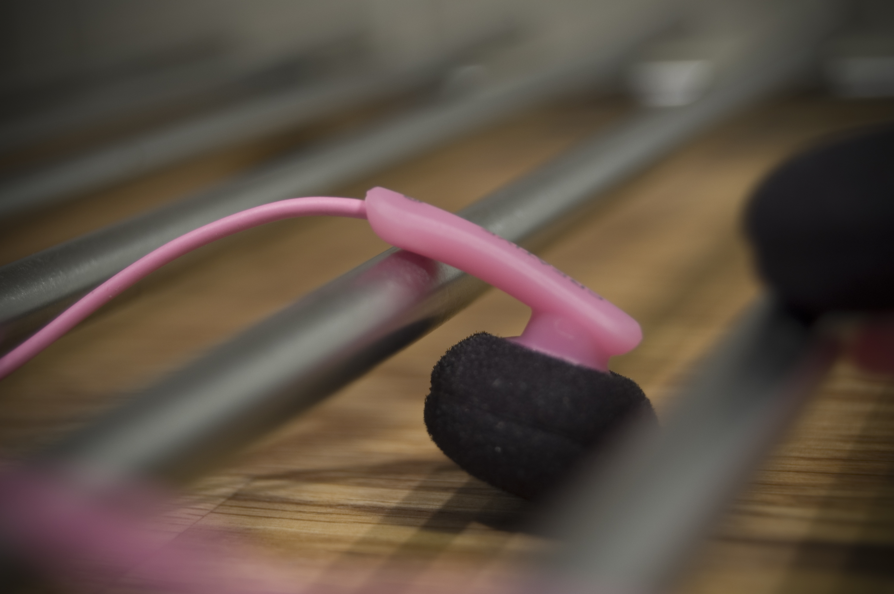 A pink earphone.